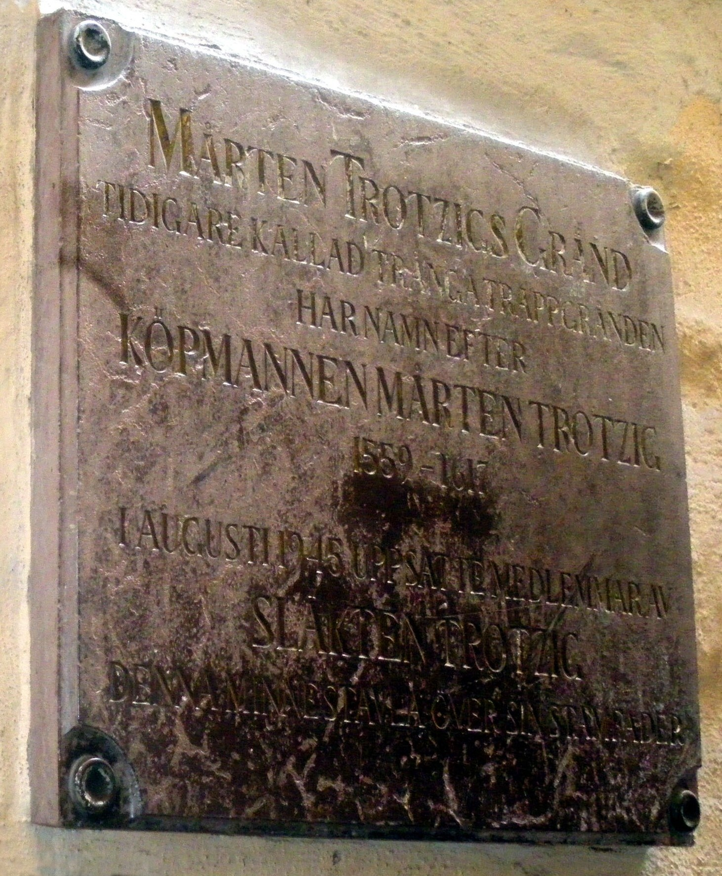 A sing of the history of a narrow street called "Mårten Trotzigs gränd" in Stockholm, Sweden.